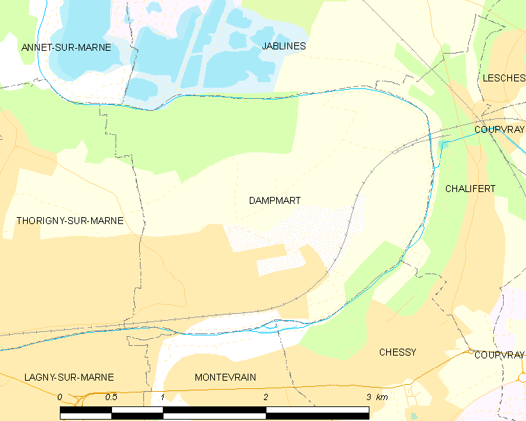 Map of French municipality Dampmart